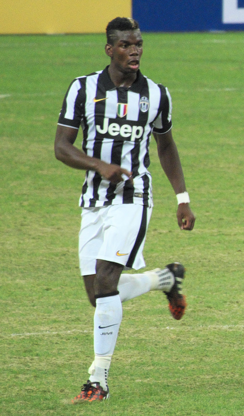 Paul Pogba playing in a pre-season friendly against Singapore in August 2014.